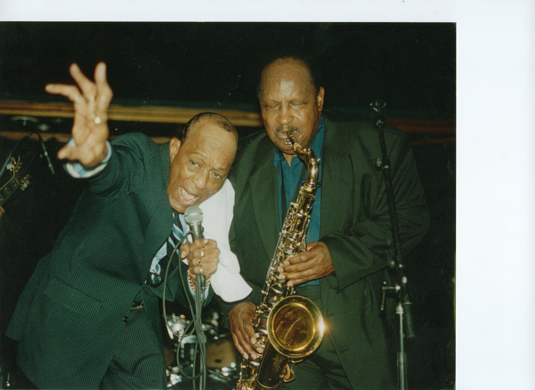 Ed Wiley Jr. and blues shouter Piney Brown unite at the Blues Estafette in Utrect, Holland, 2000.